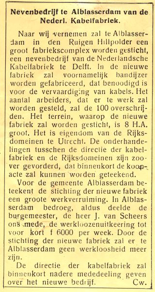 Article about the new steel factory getting build in Alblasserdam (the netherlands)